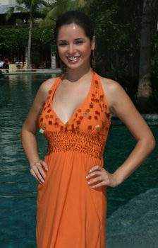 Miss Peru 2007 - Cynthia Jessenia Calderon Ulloa in Miss World 07, Sanya, China